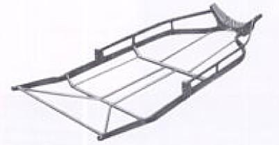 Chassy Bandini formula 3 picture by Bandini book